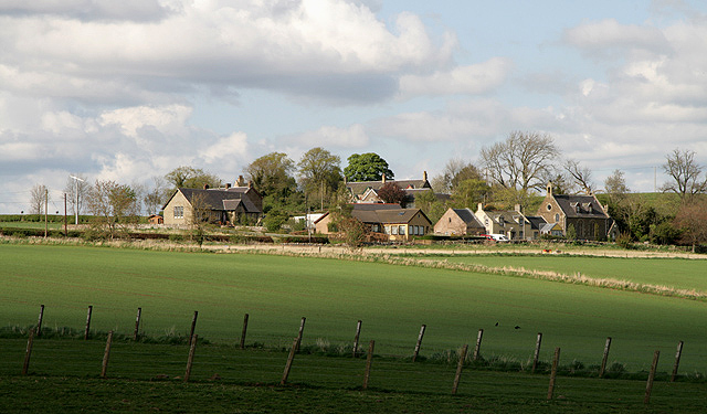 The village of Nenthorn Viewed from the walkway to Nenthorn Old Cemetery. The building on the far right is the former Parish Church, built in 1802, and now converted into a dwelling house.